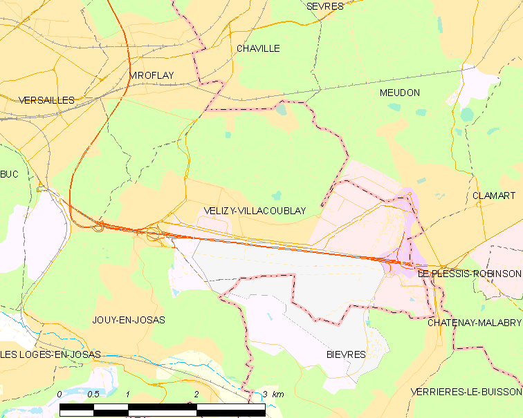 Map of French municipality Vélizy-Villacoublay